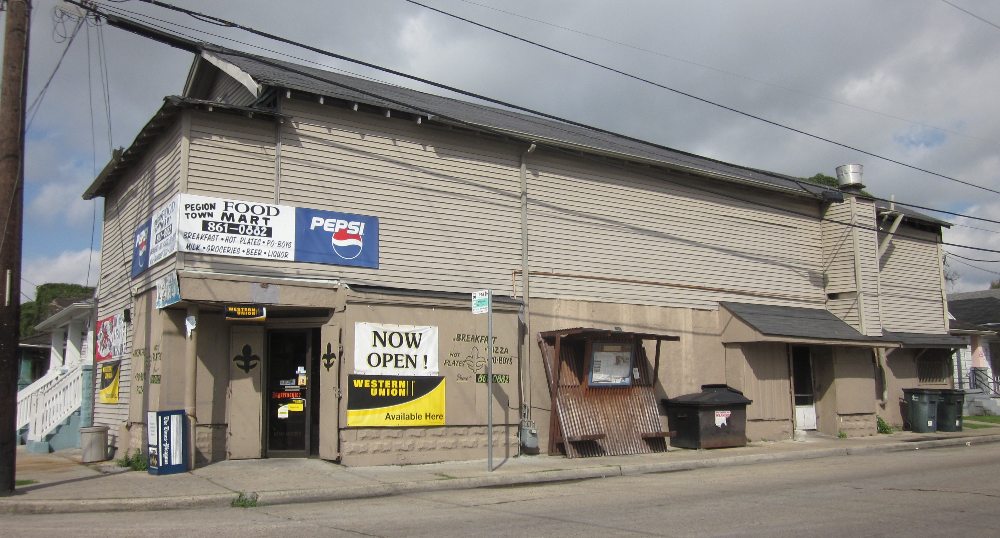 Cambronne Street, Carrollton section of New Orleans. "Pigeon Town" Food Market